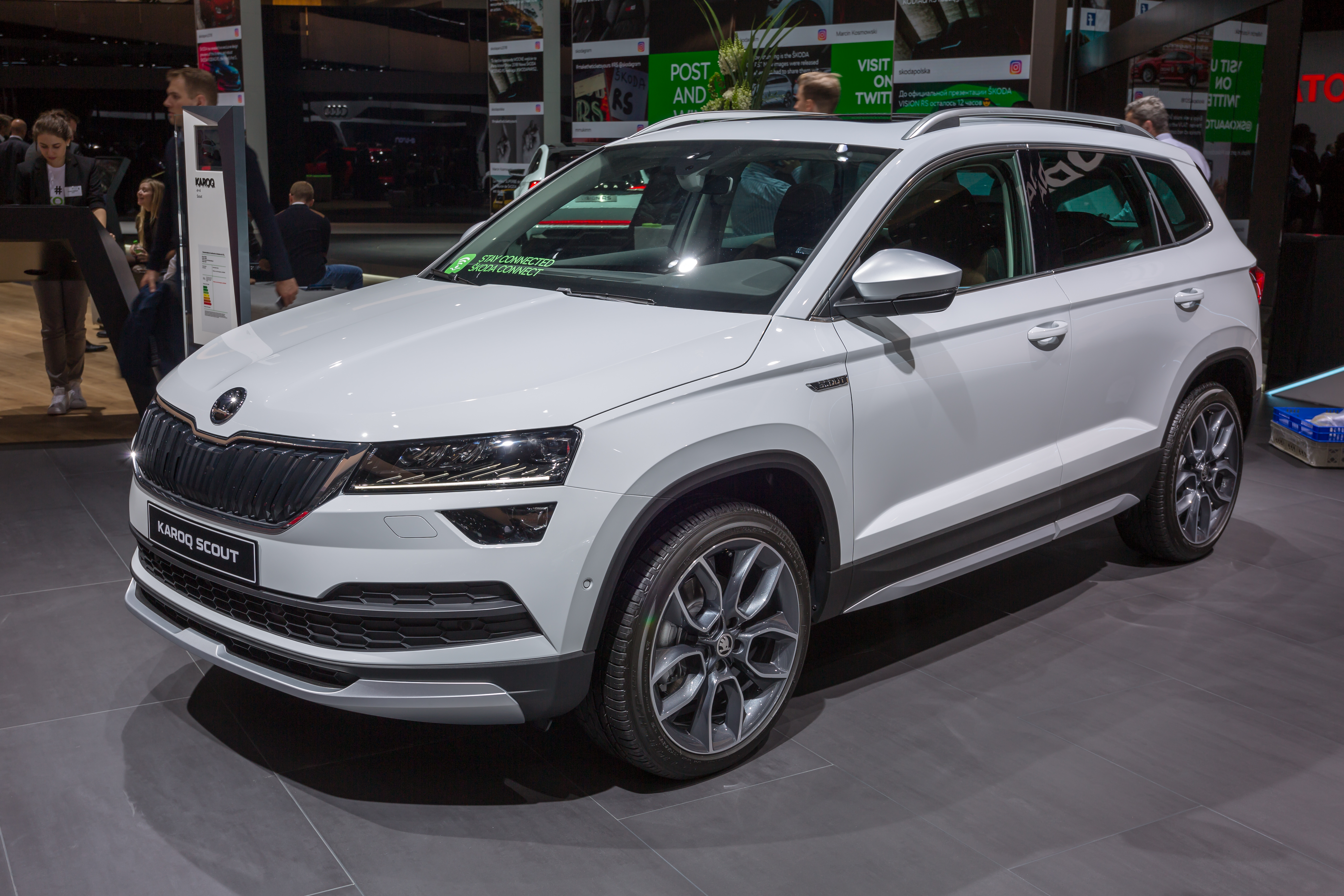 Škoda Karoq Scout, Mondial Paris Motor Show 2018